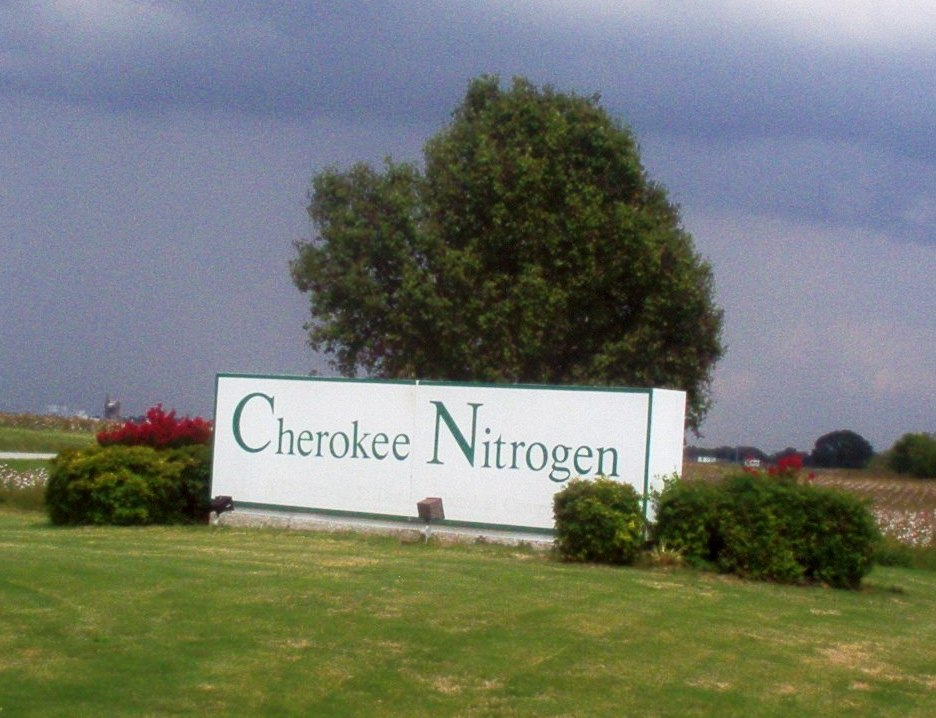 Entrance to Cherokee Nitrogen, Cherokee, Alabama in September, 2007